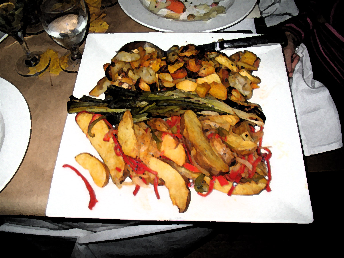 Gladstone Hotel, October 22, 2008